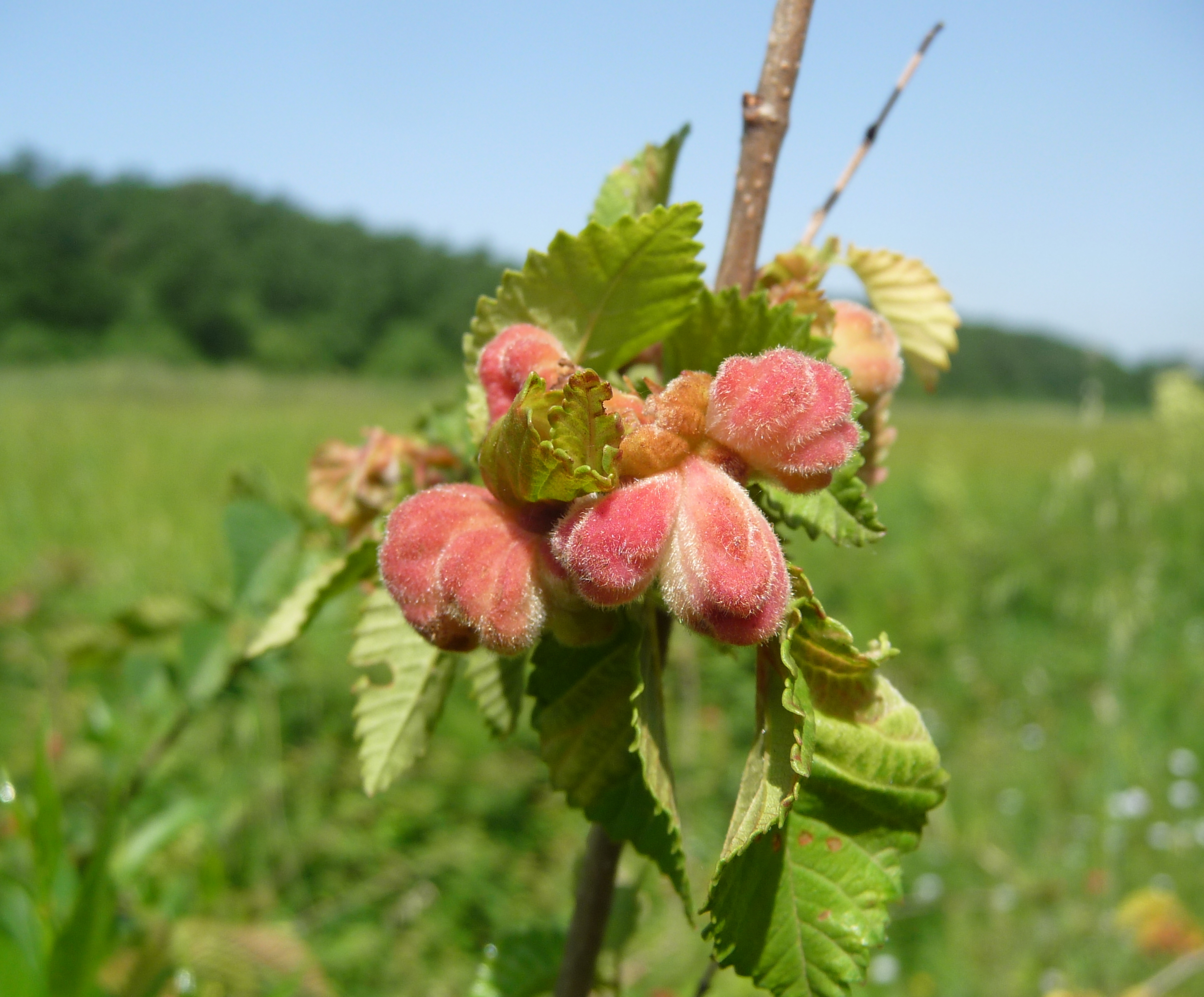 Galls of Eriosoma lanuginosum on Ulmus, Livorno, Tuscany, Italy - 18 May 2009